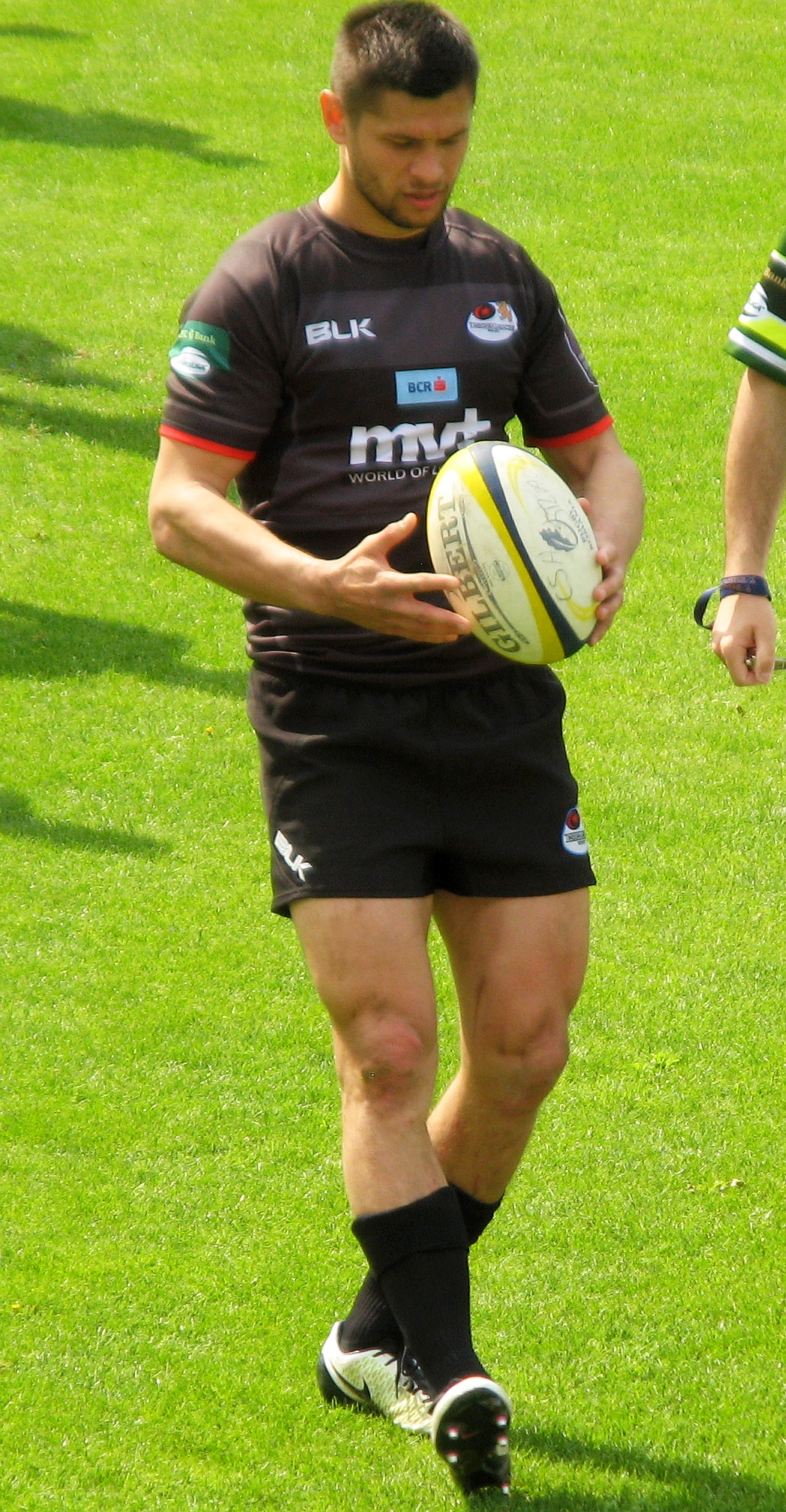 Romanian International Cătălin Fercu, rugby union player of Timișoara Saracens rugby club seen holding a rugby ball in a match against CSA Steaua București in Romanian Rugby SuperLiga in April 2017